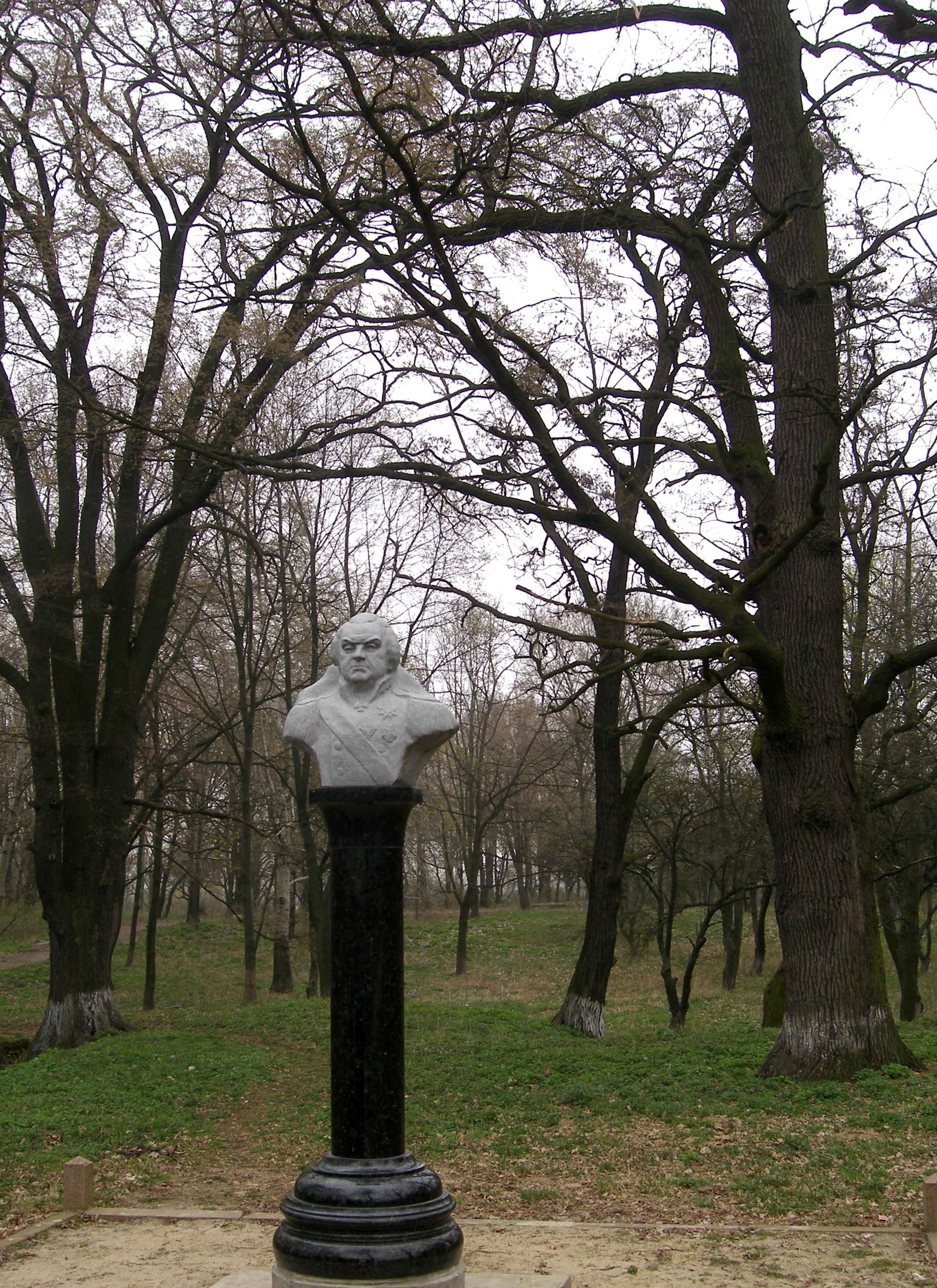 M.I.Kutuzov park and monument in Volodarsk-Volynsky, Zhytomyr region, Ukraine